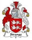 Joan or Jane de Ingham, Heiress of Ingham Also known as "Joan/Ingham", "Maud/Ingraham/", "Jane de Ingham" Born approx 1320 in Ellesmere, Shropshire, England, Died 12 December, 1365 in Ingham Manor, Smallburgh, Norfolkshire, England Relations Daughter of Oliver de Ingham, Sir Knight und Elizabeth la Zouche Wife of John le Strange, Lord Strange de Knockin und Sir Miles de Stapleton of Bedale Mother of Roger le Strange, Baron Strange of Knockyn; Joan de Stapleton und Sir Miles de Stapleton of Ingham